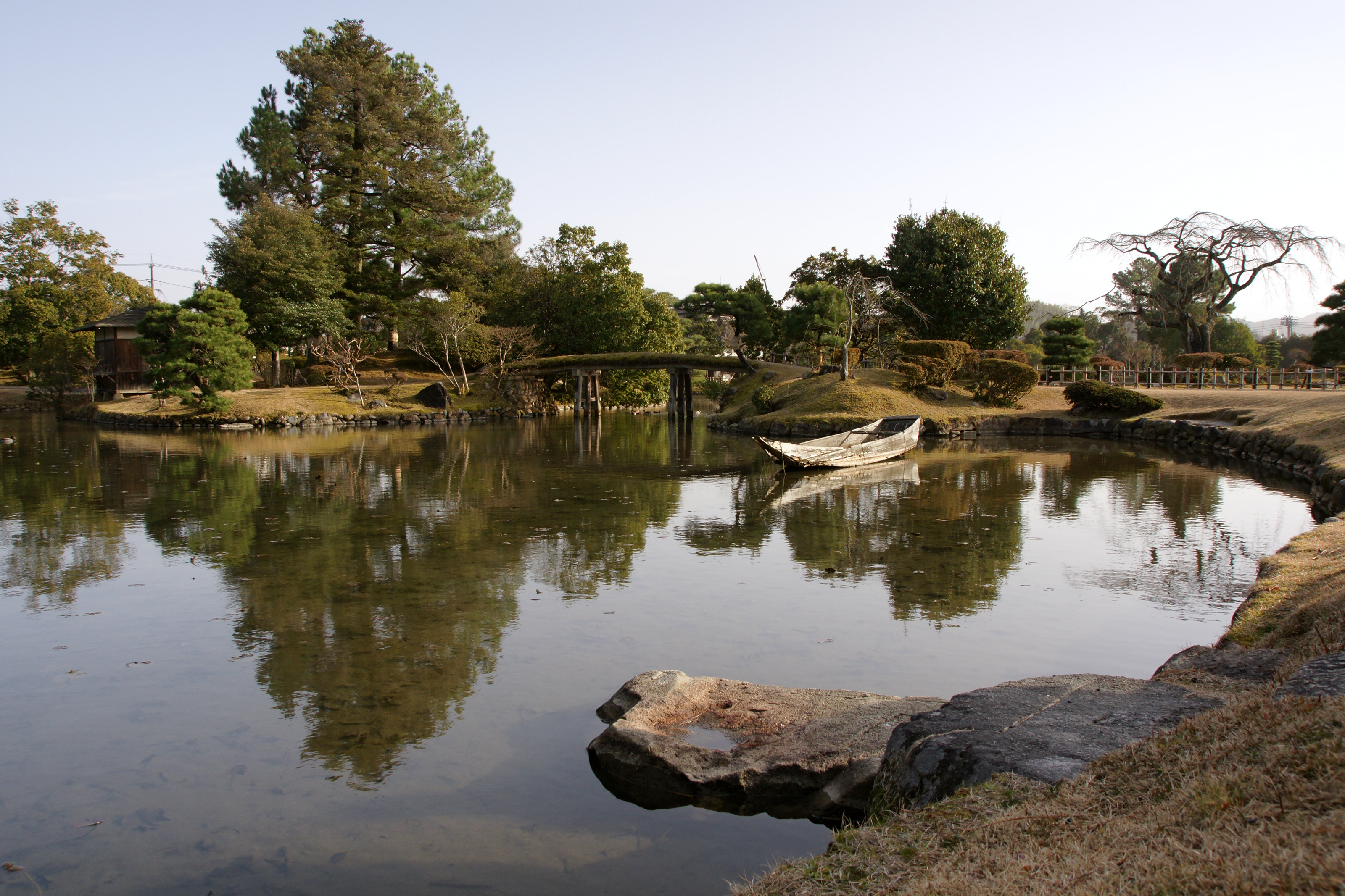 Shurakuen in Tsuyama, Okayama prefecture, Japan.